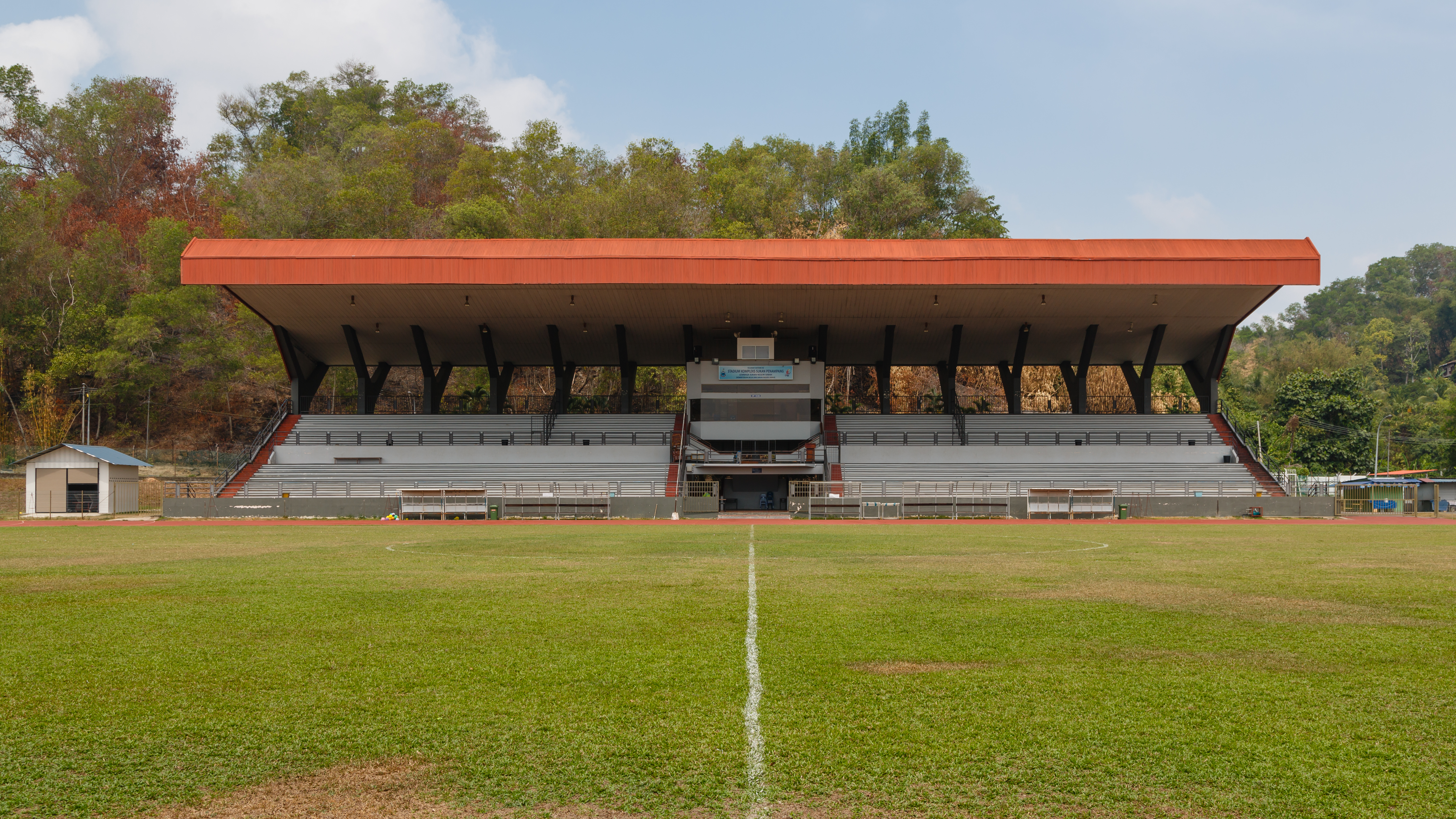 Penampang, Sabah: Penampang Stadium as part of Penampang Sports Complex)